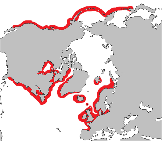 Distibution of Phoca vitulina